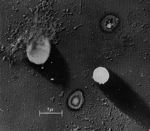 Phyllis Margaret Rountree (13 January 1911 – 27 July 1994) was an Australian microbiologist and bacteriologist. Electron Micrograph taken by Rountree while at the Fairfax Institute of Pathology c.1954